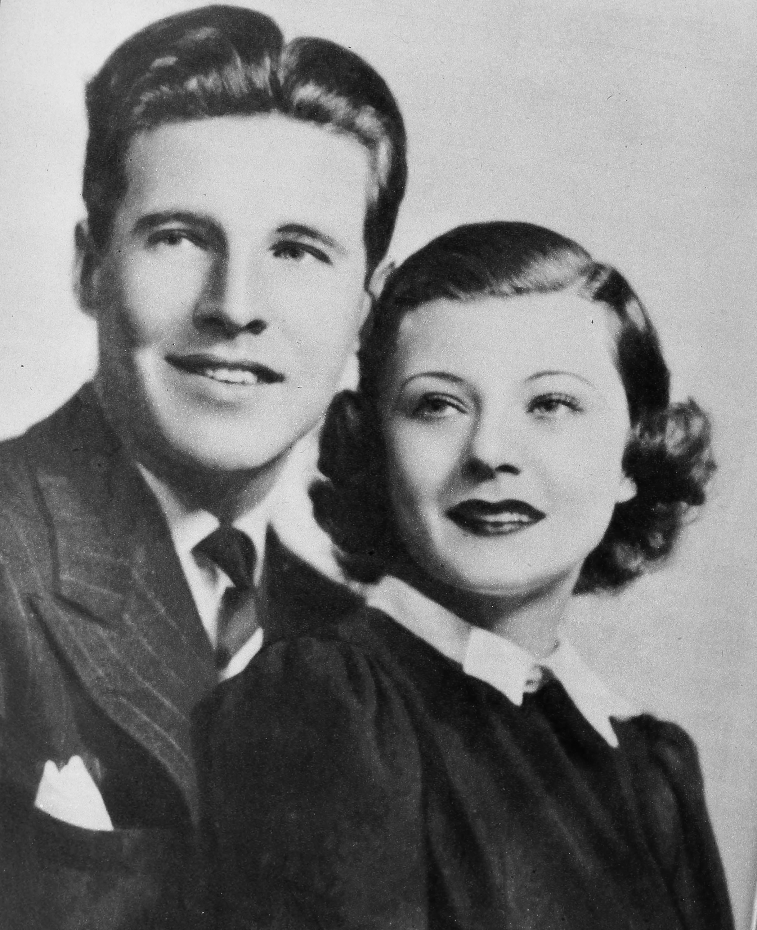 Portrait of Ozzie and Harriet Nelson